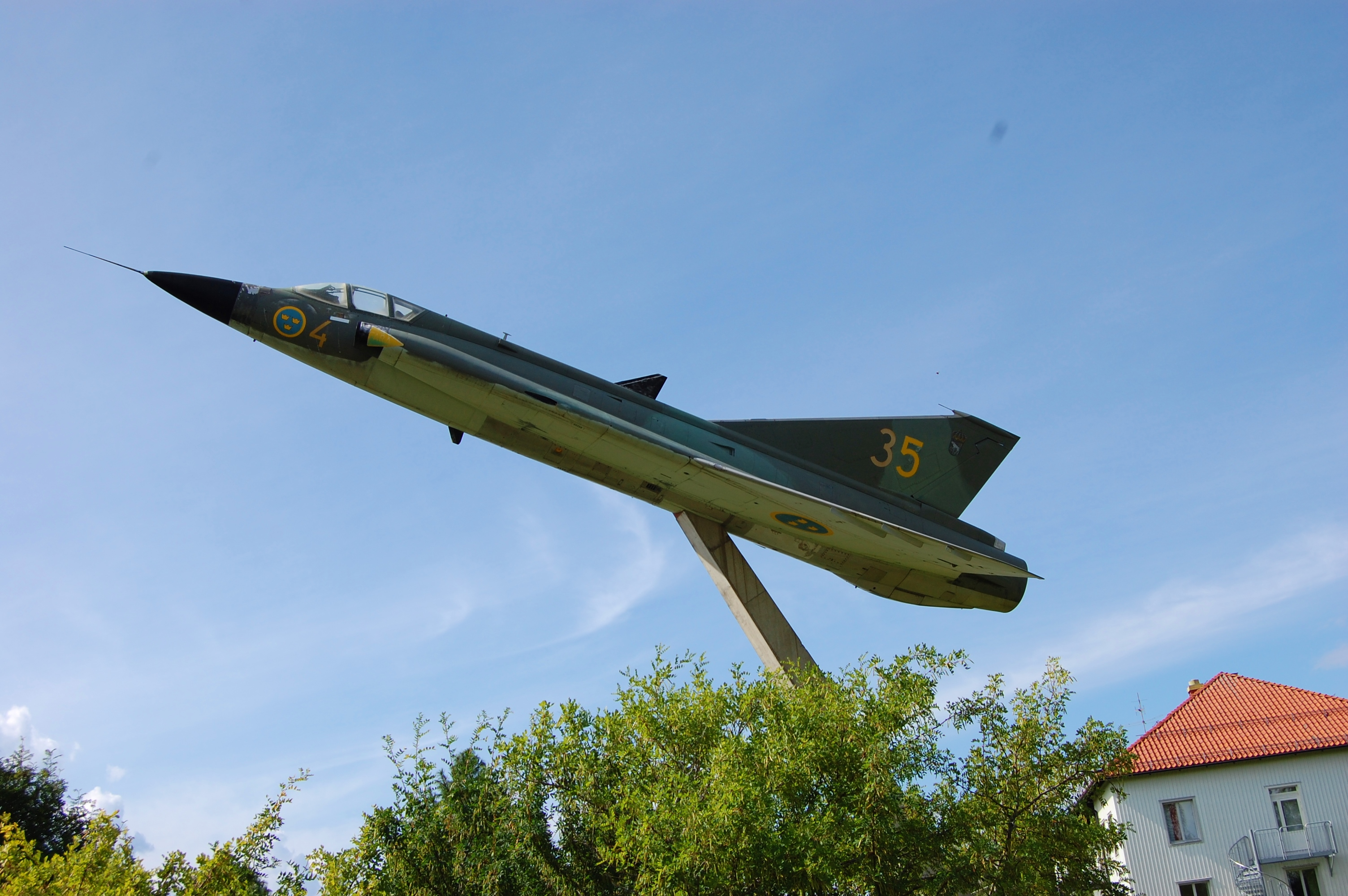 SAAB J 35D Draken 35386 at former F 4 Wing, Frösön. Östersund, Sweden.